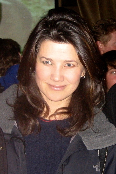 Daphne Zuniga at the 2007 Sundance Film Festival